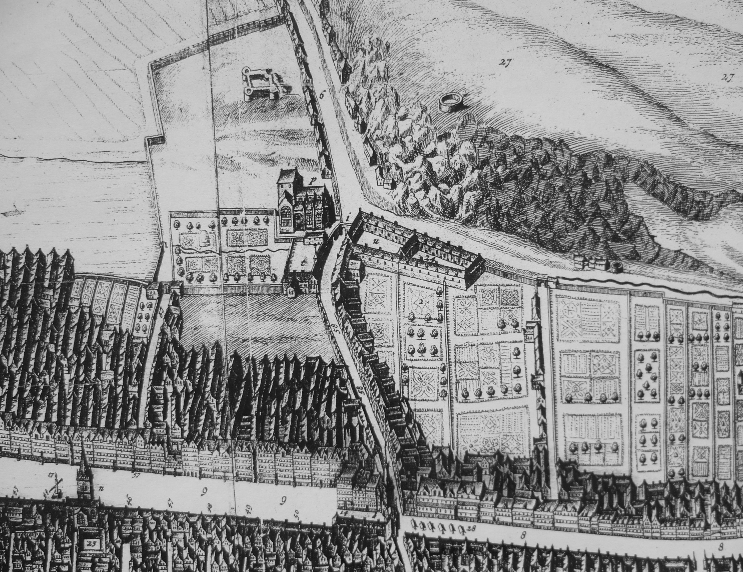 Trinity College Kirk from James Gordon of Rothiemay's map of Edinburgh 1647. This image is annotated on its description page.